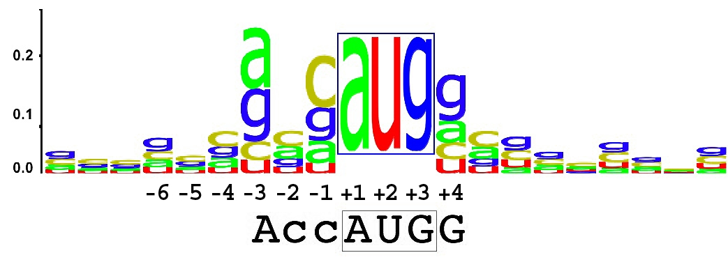 A diagram derived from counts of the bases in the translation initiation region from all human genes (mRNAs). Each letter is written in proportion to its frequency of occurrence. The letters are stacked together in a sequence logo. If a base were used in all ~25,000 genes it would be fully conserved and be drawn two bits tall. The most significantly biased bases are -3 (A) and +4 (G). The Initiation codon AUG is not drawn to scale (it would be 2 bits) of information on this scale.